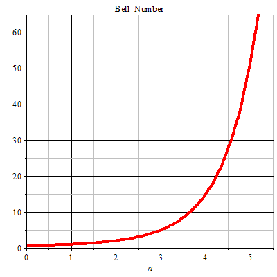 Bell Number